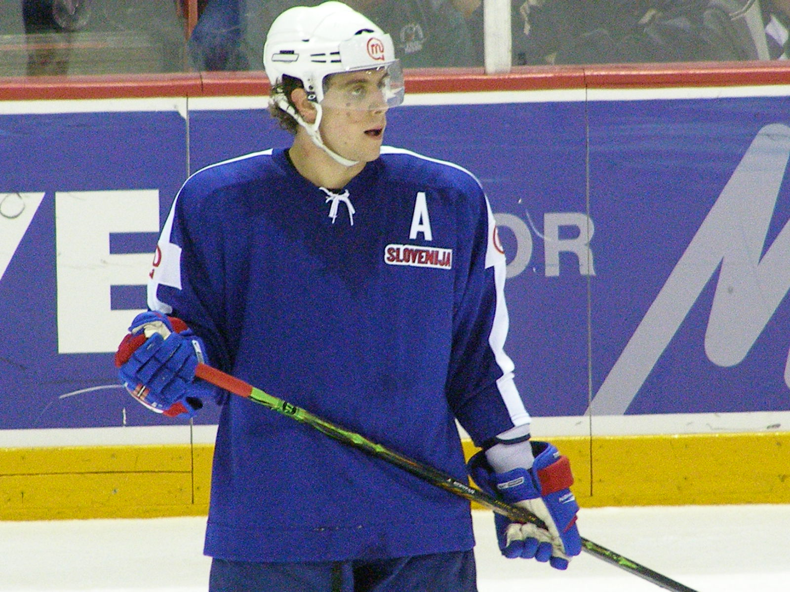 Latvia VS Slovenia (IIHF World Hockey Championship in Halifax NS, May 6 2008)